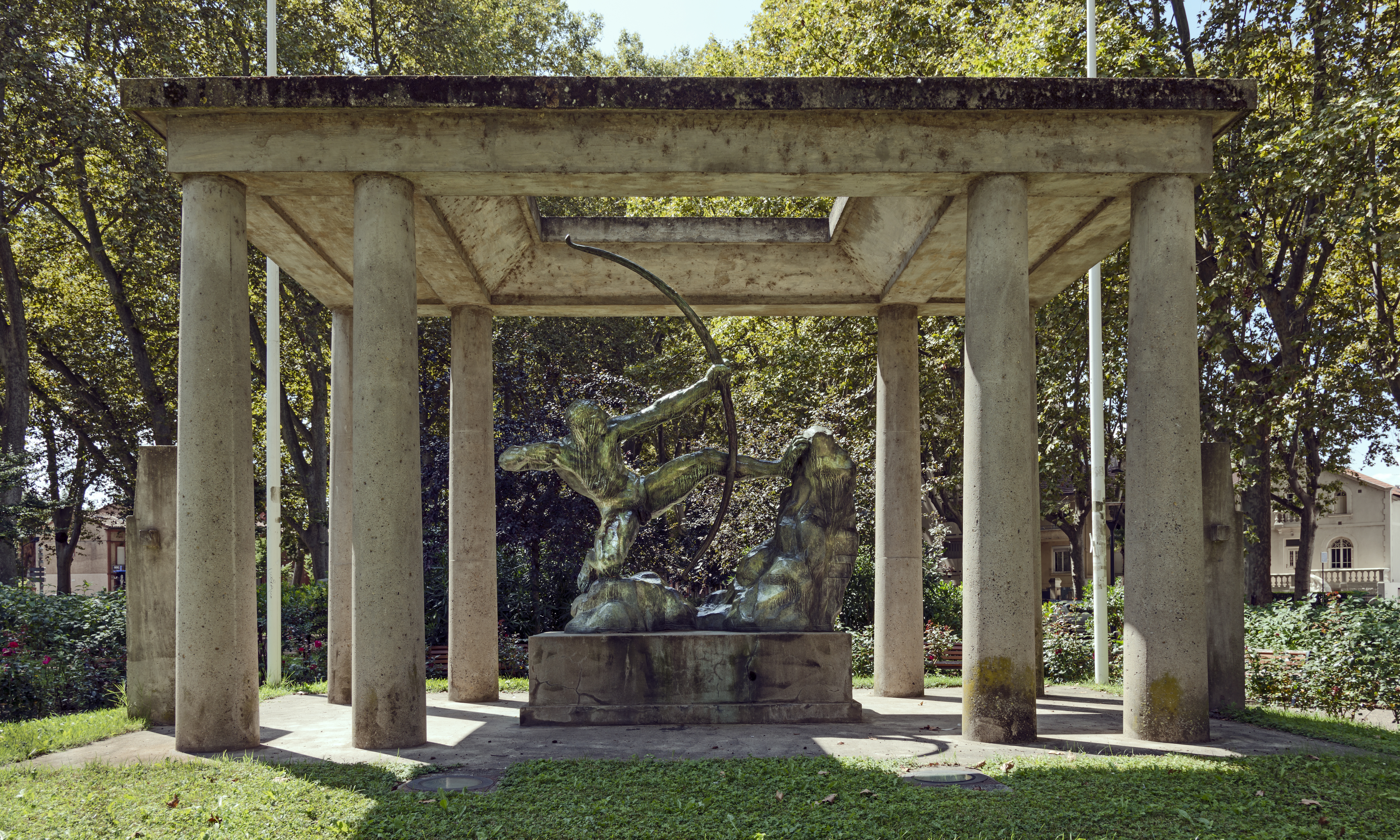 "Hercules the Archer" by Antoine Bourdelle. Monument in memory of the dead athletes to the 1914-1918 war, Toulouse. Directed in 1922 by Bourdelle erected in 1925.